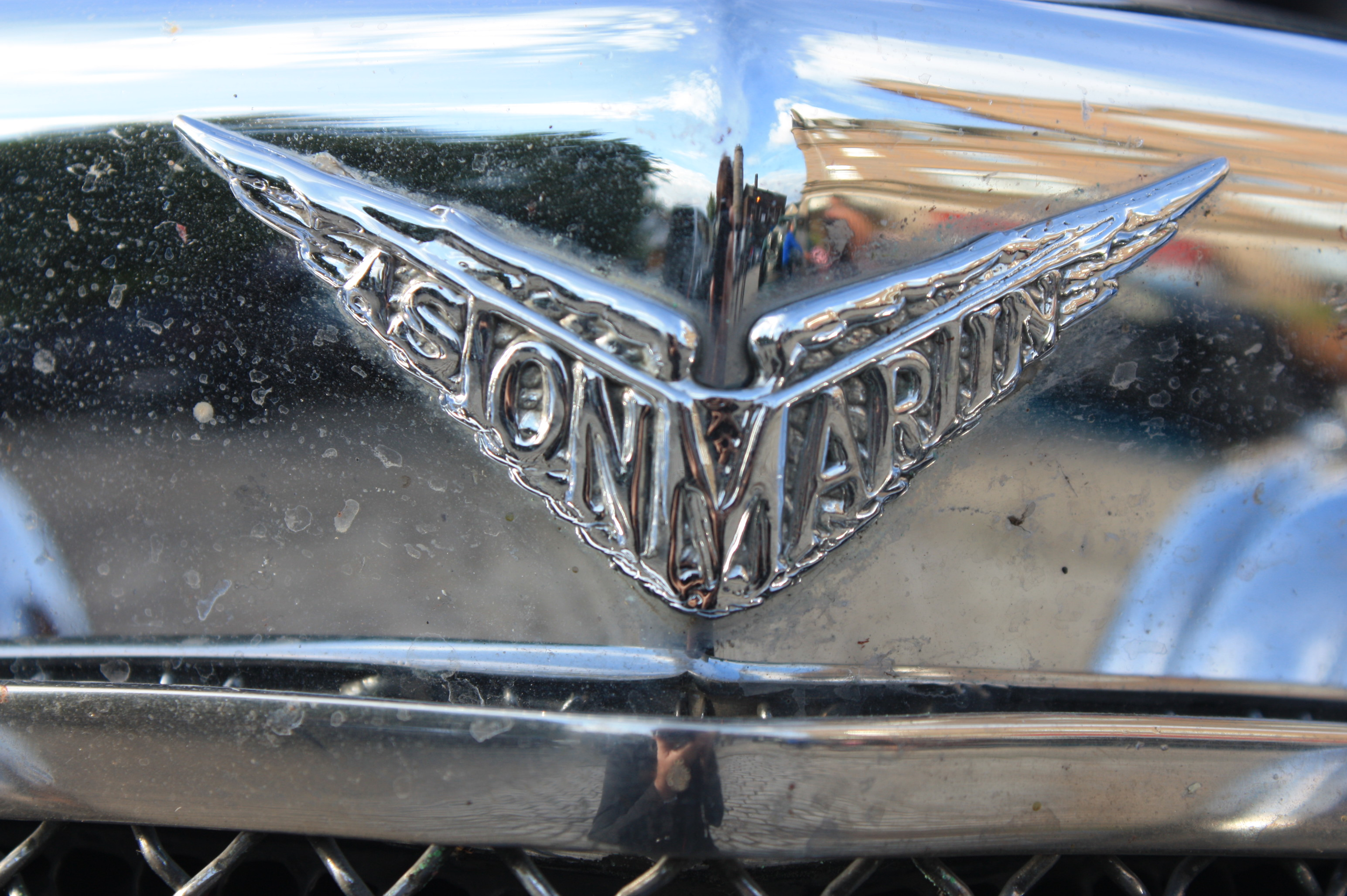 Early Aston Martin marque